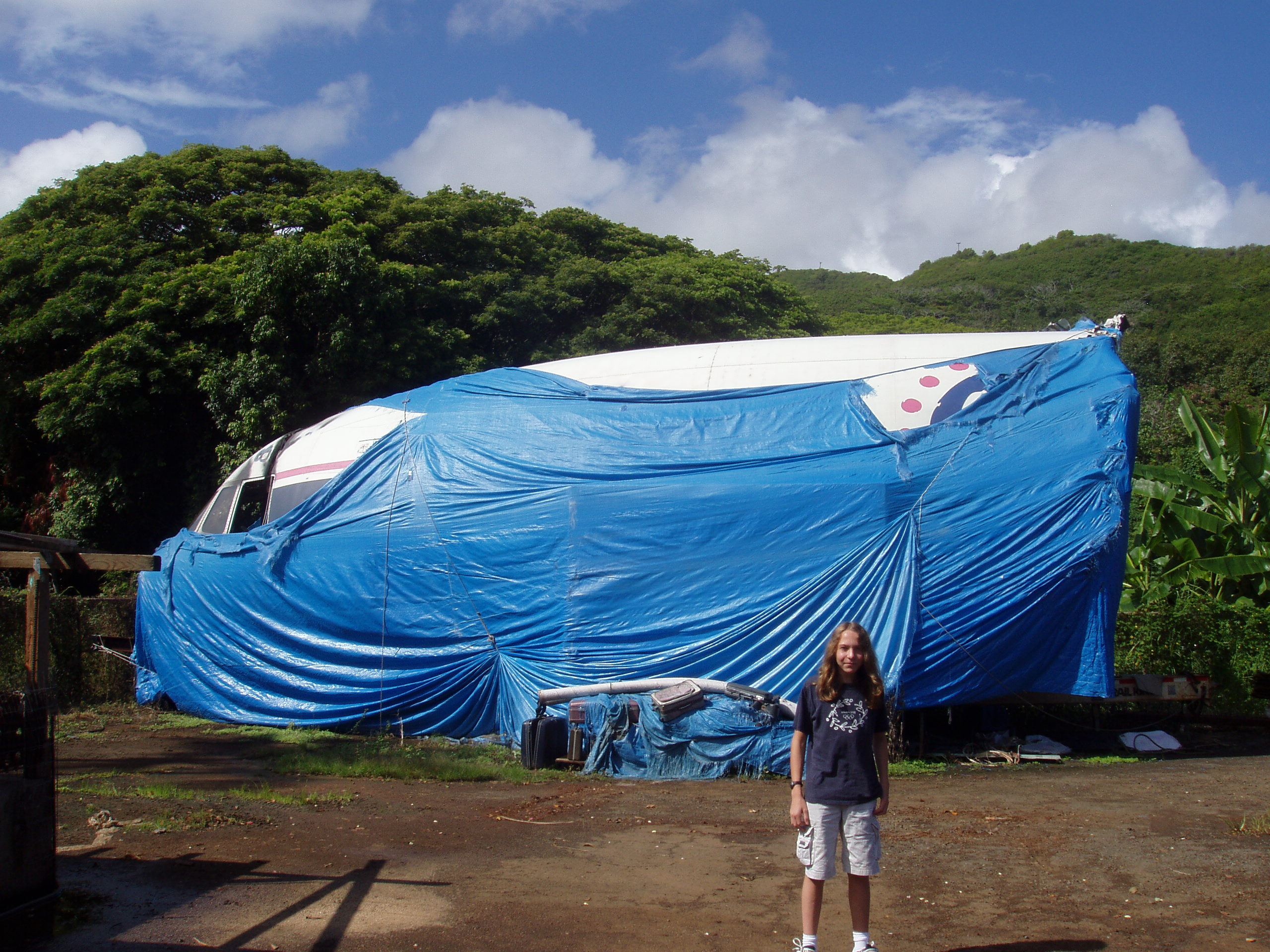 The author of this picture IS me, Lost_Cause_815, although I refer to the maker of the picture as nsmith12916 of , because that is where I originally posted it. nsmith12916 and I are one in the same. This is the front section of the plane used in the Lost Pilot. You can find it on the Kamehameha Highway about 2-5 minutes south (by car) of Heeia State Park.